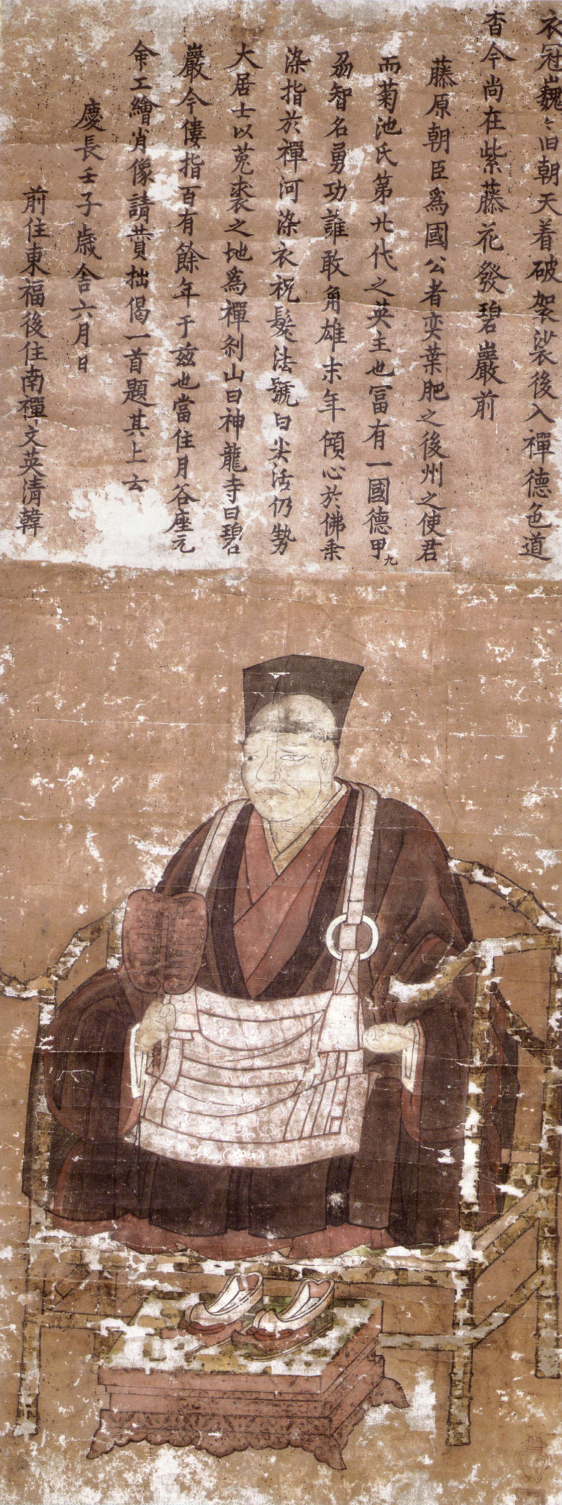 Kikuchi Tamekuni, kept at Kikuchi Jinja, Kikuchi, Kumamoto, Japan